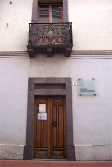 A biographical museum about Antonio Gramsci — housed within his childhood home. Located in Ghilarza, on Sardinia, western Italy.